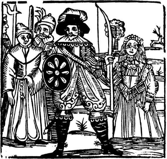 image from the broadside of Robin Hood and Maid Marion